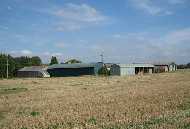 Milcote Manor Farm. Milcote Manor Farm, looking north-east from the bridleway from Weston.